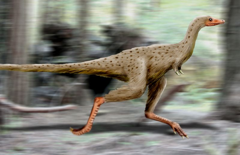 Linhenykus